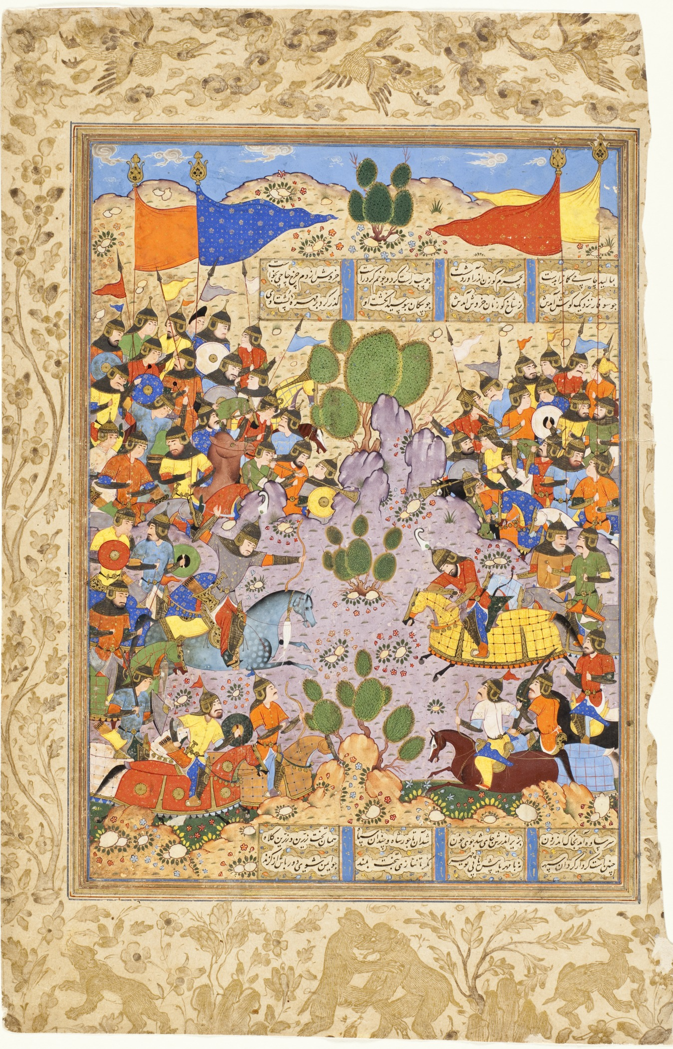 Iran, Shiraz, circa 1560 Book: Shahnama (Book of Kings) of Firdawsi Manuscripts Opaque watercolor heightened with gold and silver on paper Purchased with funds provided by Camilla Chandler Frost and Karl H. Loring with additional funds provided by the Art Museum Council through the 2009 Collectors Committee (M.2009.44.1) Islamic Art